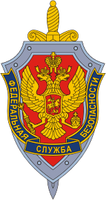 Emblem of the russian FSB, the successor of the KGB.